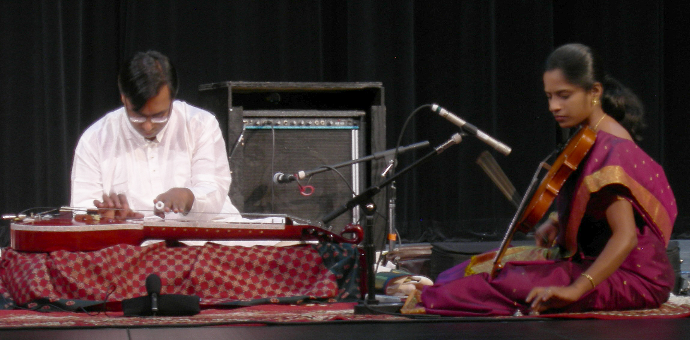 South Indian (Carnatic) musical performance. Ravikiran, navachitraveena, which is his own invention, basically a hollow-body electric chitraveena played with a teflon (rather than ebony) slide. Akkarai S. Subhalakshmi, violin Photo taken at Interlake High School, Bellevue, Washington, during a performance in the Ragamala series (Greater Seattle).